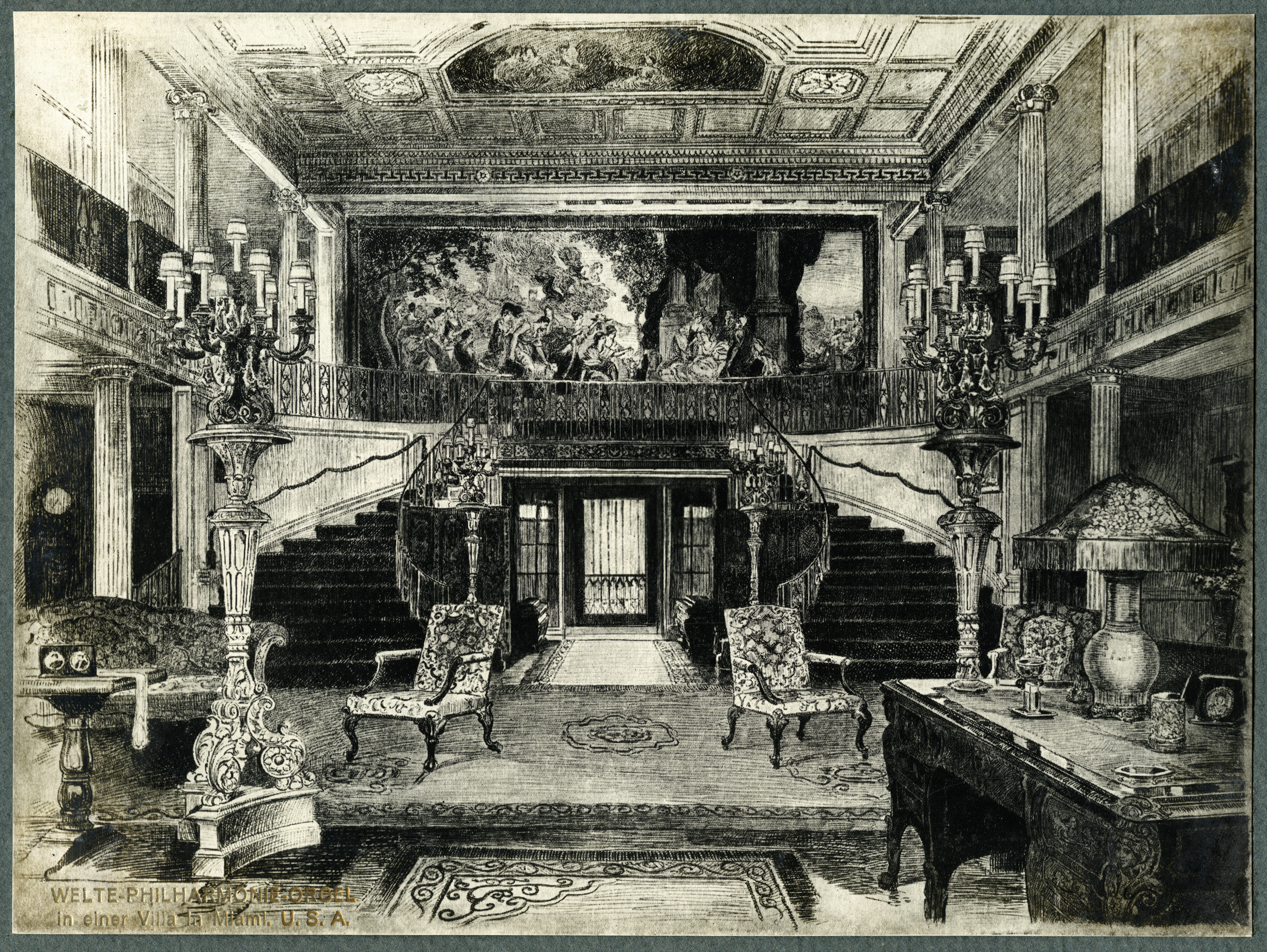 Reproduction (scan) of a drawing: Welte philharmonic organ in Miami, USA. Drawing in a company catalogue of Welte & Sons, 1914, artist unknown